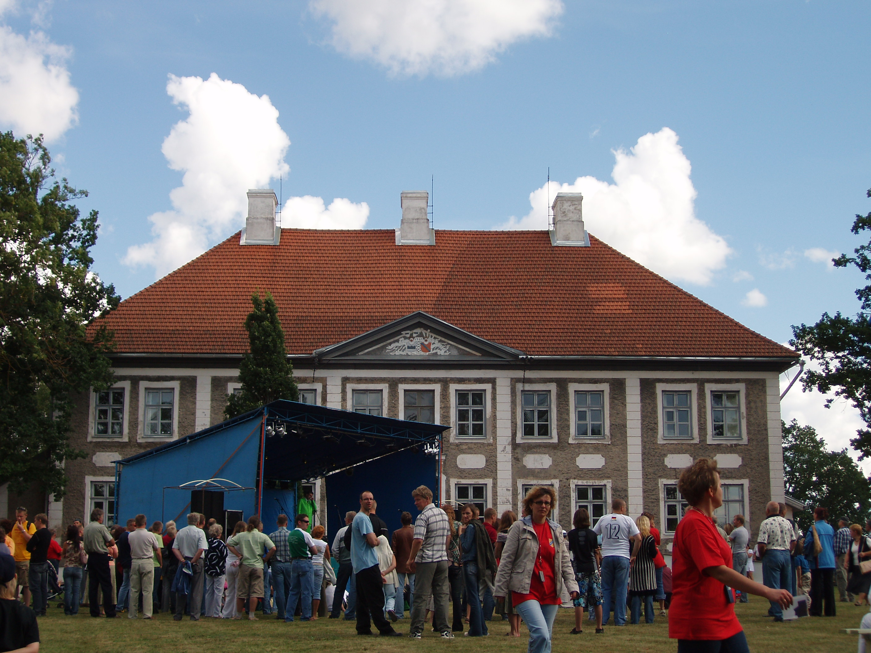 Maidla manor in Lüganuse Parish